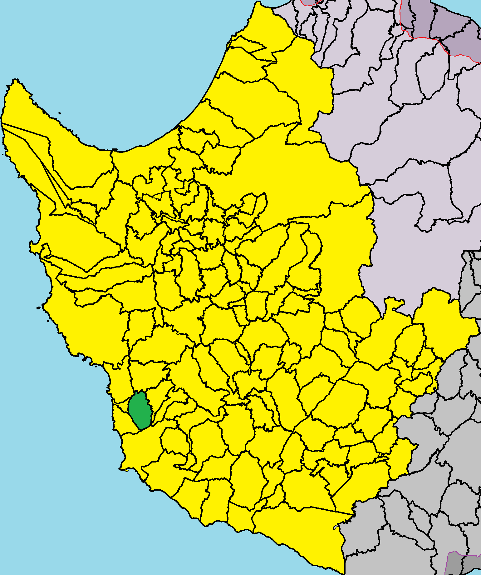 Empa in Paphos District.